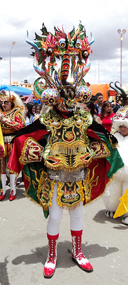 Character of the diablada on the day of Virgin Candlemas (2 February 2011), Oruro, Bolivia “ Diablada. f. Typical dance from the region of Oruro, Bolivia, named after the mask and the devil costume worn by dancers. II 2. Mex. prank (II minor mischief.) ” —Dictionary of the Spanish Royal Academy of Language “ ...The Spanish banned these ceremonies in the seventeenth century, but they continued under the guise of Christian liturgy: the Andean gods were concealed behind Christian icons and the Andean divinities became the Saints. The Ito festival was transformed into a Christian ritual, celebrated on Candlemas (2 February). The traditional llama llama or diablada in worship of the Uru god Tiw became the main dance at the Carnival of Oruro... ” —Proclamation of "Masterpiece of Oral and Intangible Heritage of Humanity" to the "Carnival of Oruro", UNESCO 2001